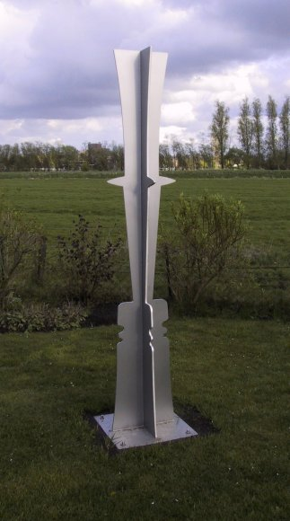 Peter Fetthauer, titel: 4 heads, sculptur made from stainless steel , silver, 2000